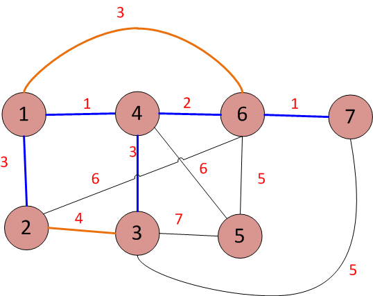 step 6 for debug Kruskal